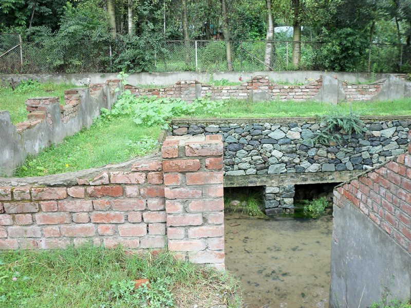 Nara Nag als known as narian nag is a spring in Khag Jammu & Kashmir